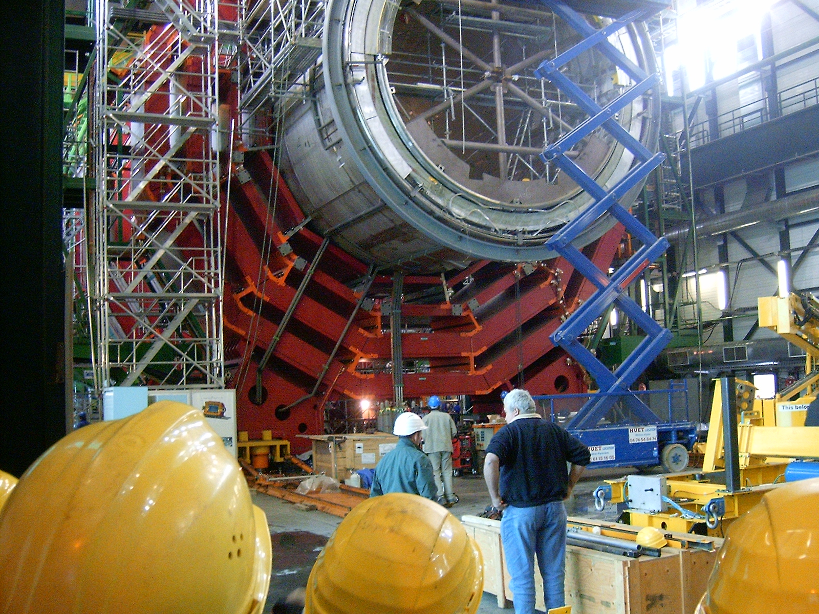 The central part of the Compact Muon Solenoid barrel with the vacuum tank, at the Large Hadron Collider at CERN Photo taken by: Arpad Horvath at October 29 2005.